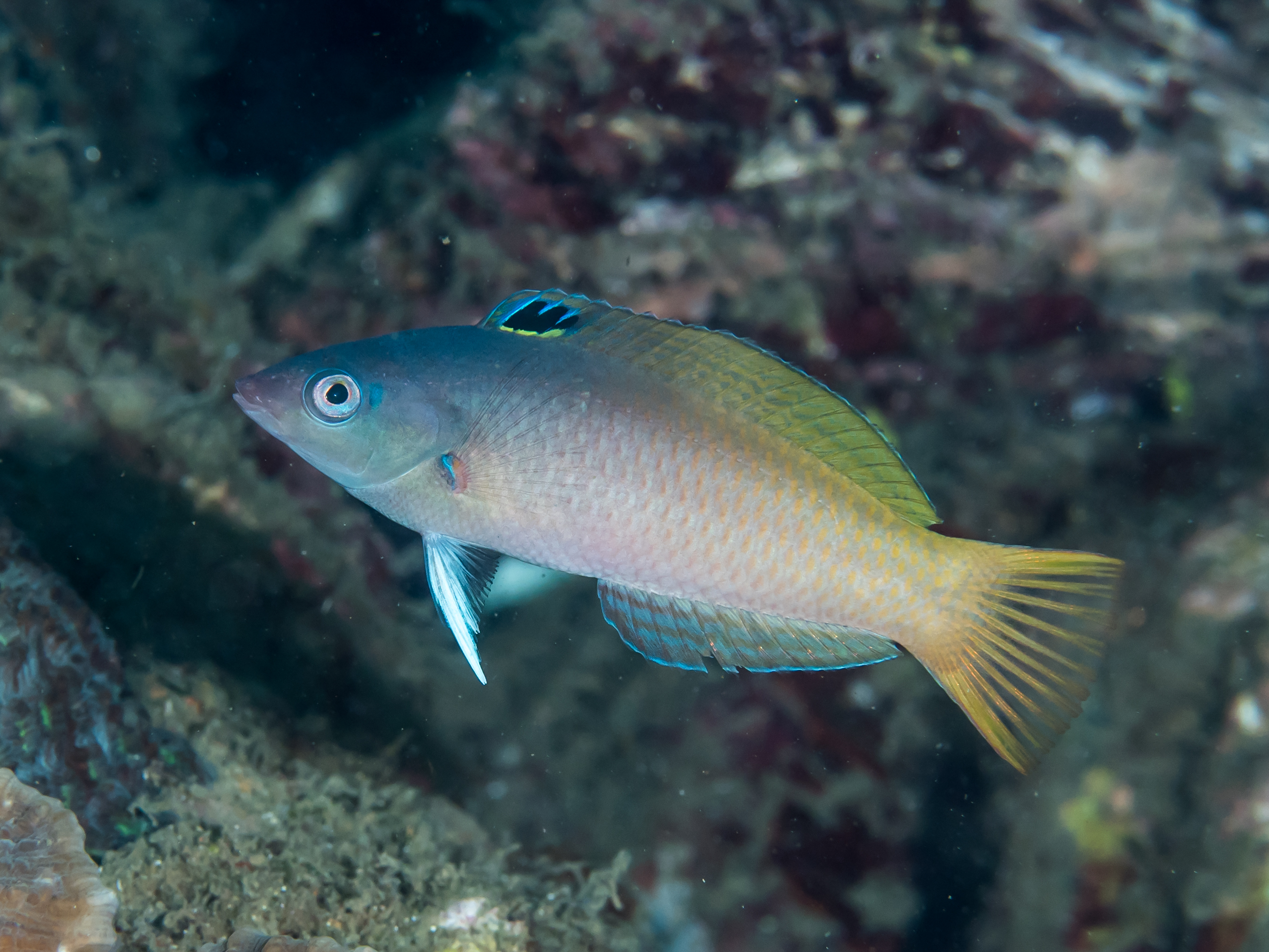 Lembeh, Indonesia - Twotone wrasse (Halichoeres prosopeion)